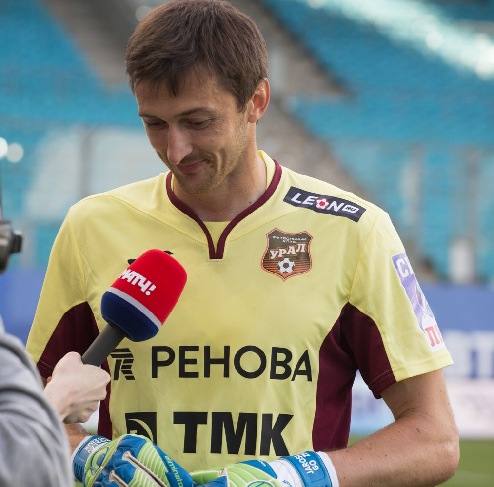 Yaroslav Hodzyur interviewed after the game of FC Ural Yekaterinburg against FC Dynamo Moscow.